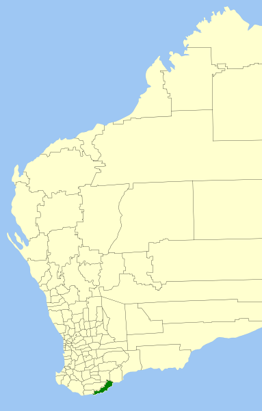 Description=Location of the Local Government Area in Western Australia